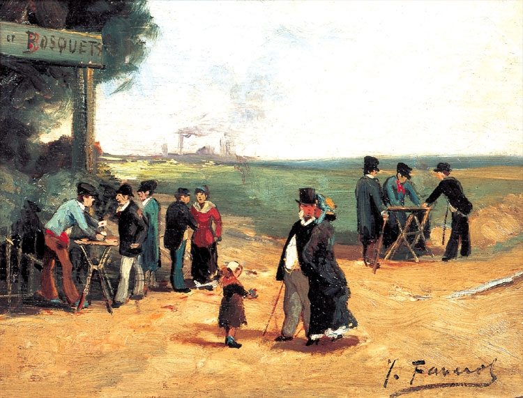 Prestidigitation by Joseph Faverot (b. 1862).